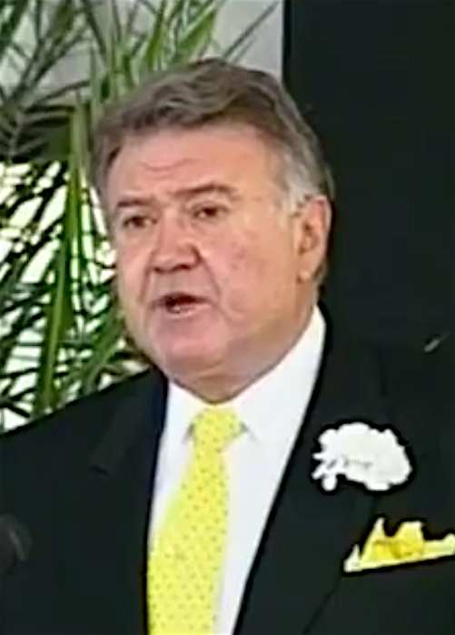 Richard Pratt speaking at the opening of the Swinburne University of Technology's Lilydale campus in 1997, in his capacity as university chancellor.